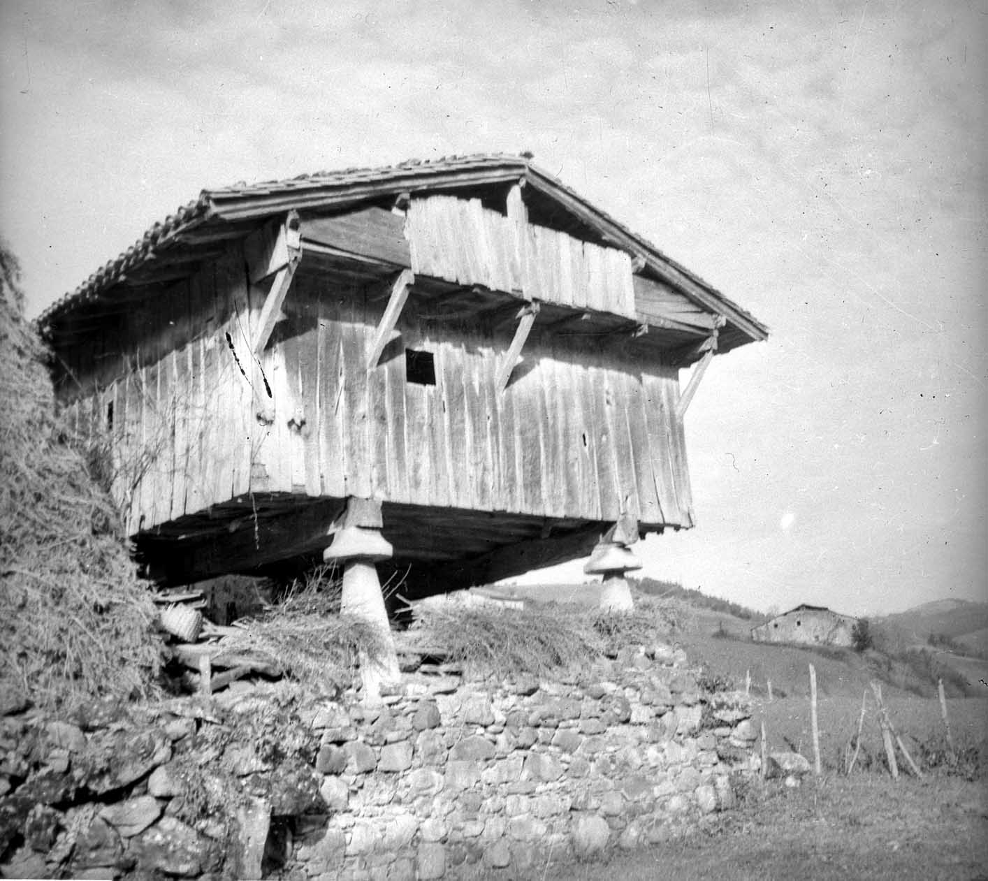 The gereixa (granary / hórreo) of Ibarguren in Barinaga (Markina-Xemein)